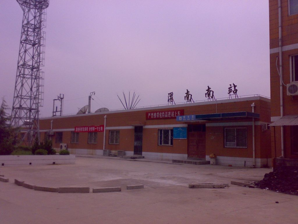 Weinan South Railway Station